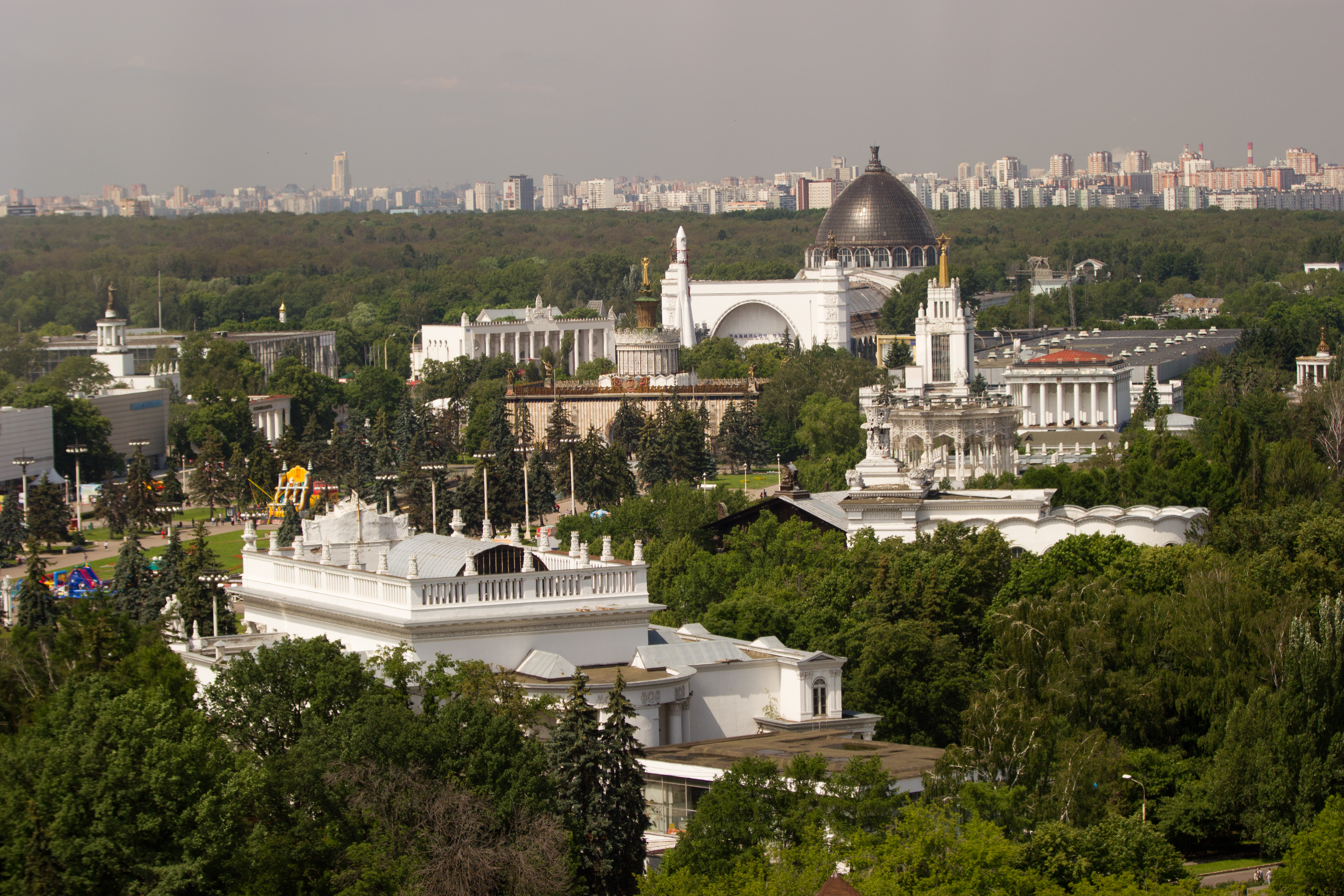 Russia